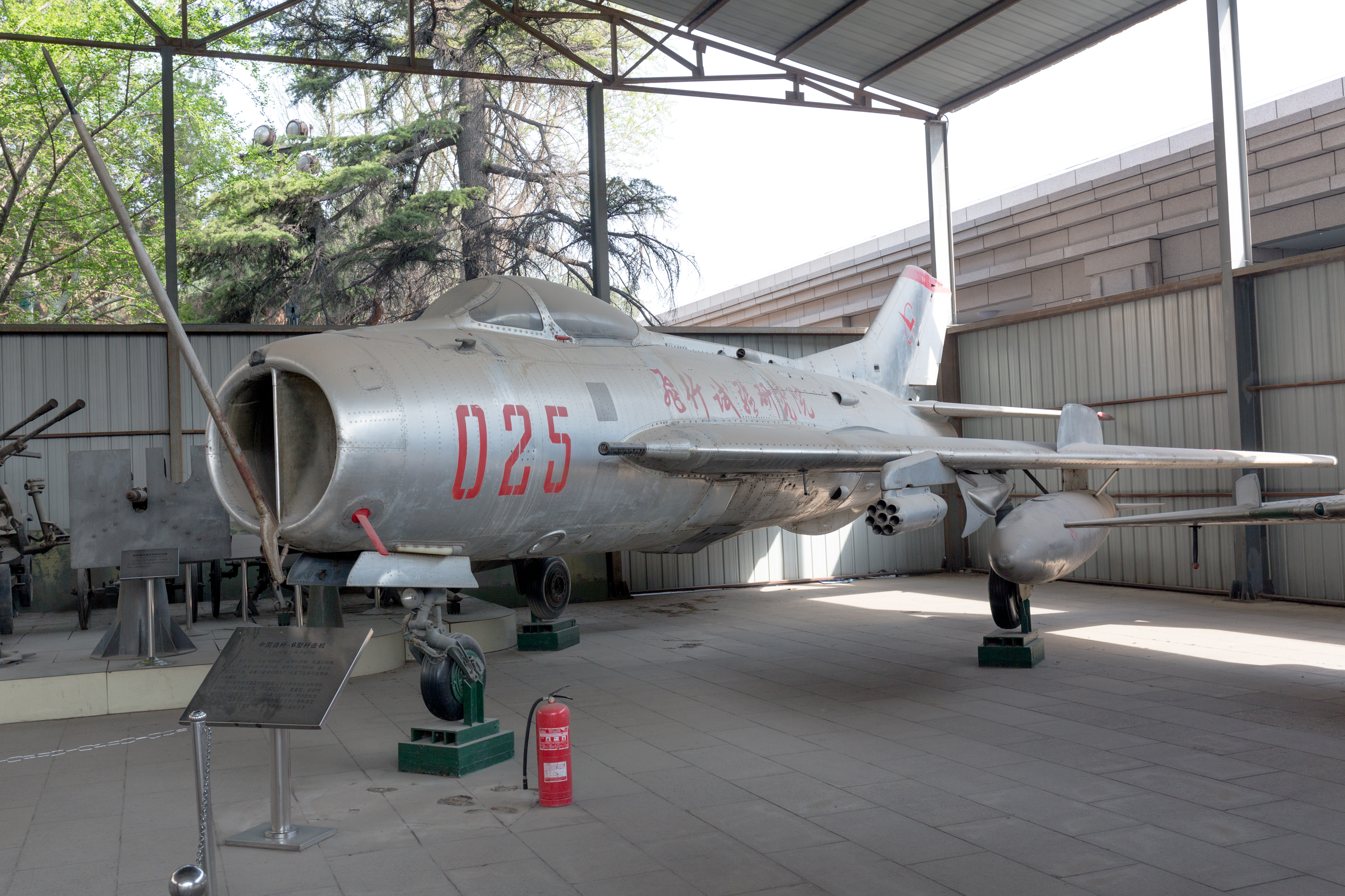 Shenyang J-6